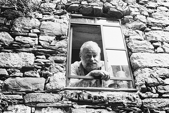 Bert Jäger in Pietrabruna 1988